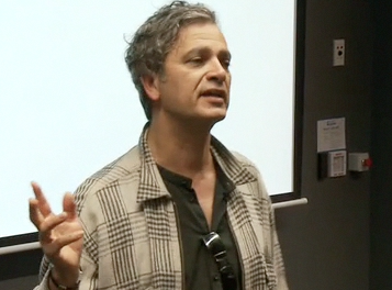 Nikolas Kompridis at the ASCP Post/human condition conference in Auckland (2008).